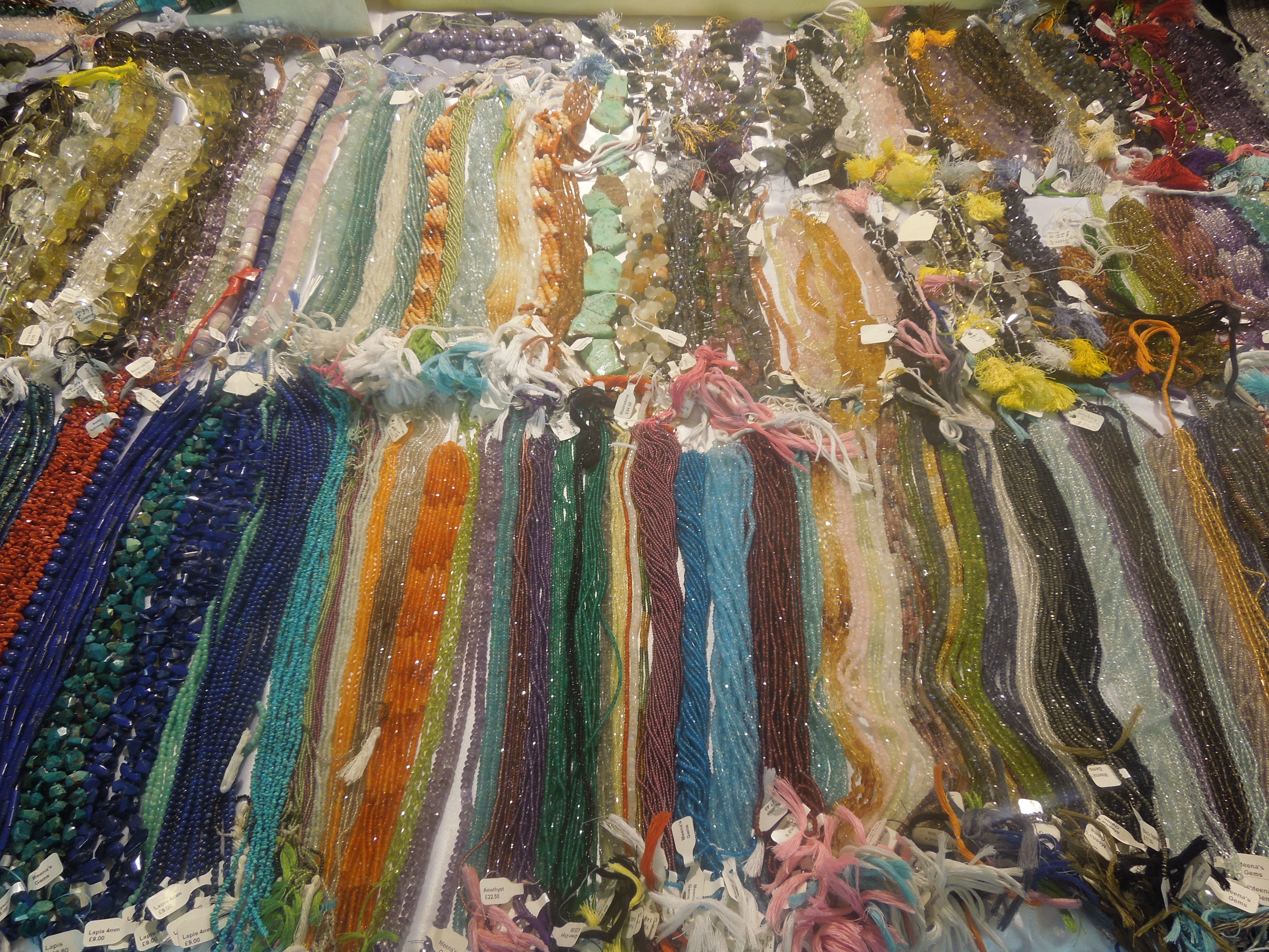 Photo of the Rock Gem 'n' Bead Show (August 4 and 5, 2012, Kempton Park Racecourse, London, United Kingdom).